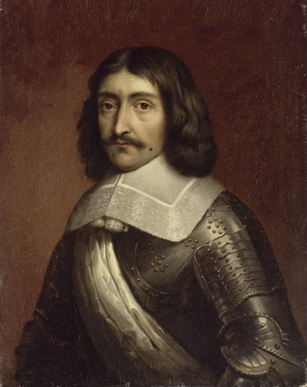 Commissioned by Louis Philippe I in 1835